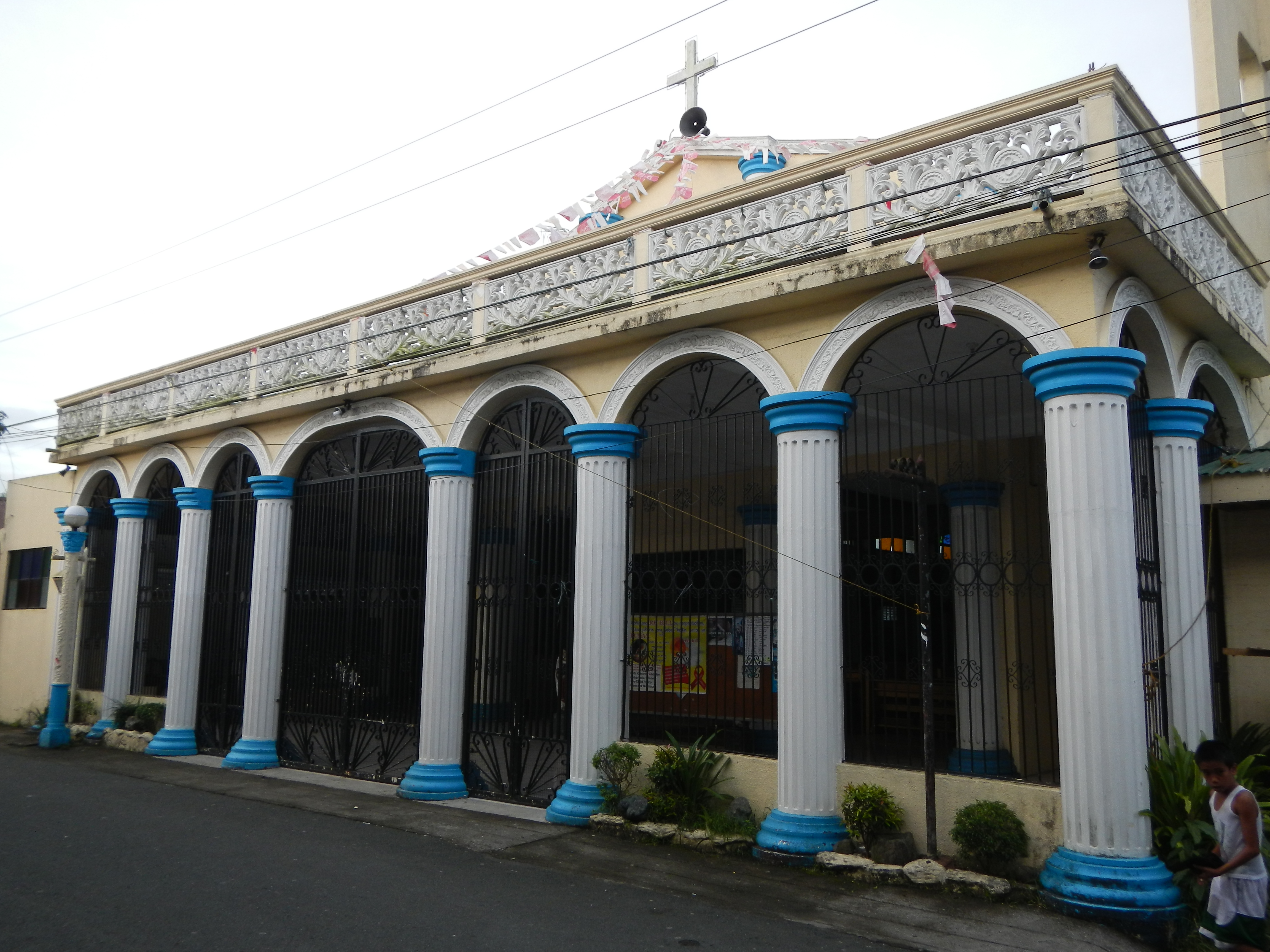 Upload Wizard photos of -- the - Immaculate Conception Parich Parish Church of Mataasnakahoy, Mataas na Kahoy, Batangas[1] (a 4th class municipality in the Province of Batangas, Philippines; 2010 census, it has 27,177 people; created by virtue of Executive Order No. 308 signed by George Butte, acting Governor General of the Philippines on March 27, 1931, effective January 1, 1932 has 16 barangays); [2] Geographical location: Batangas, Region 4, Philippines, Asia Geographical coordinates: 13° 57' 30" North, 121° 6' 50" East. [3] Mataasnakahoy Municipal Hall Poblacion Coordinates: 13°57'37"N 121°6'52"E, covered court, plaza.